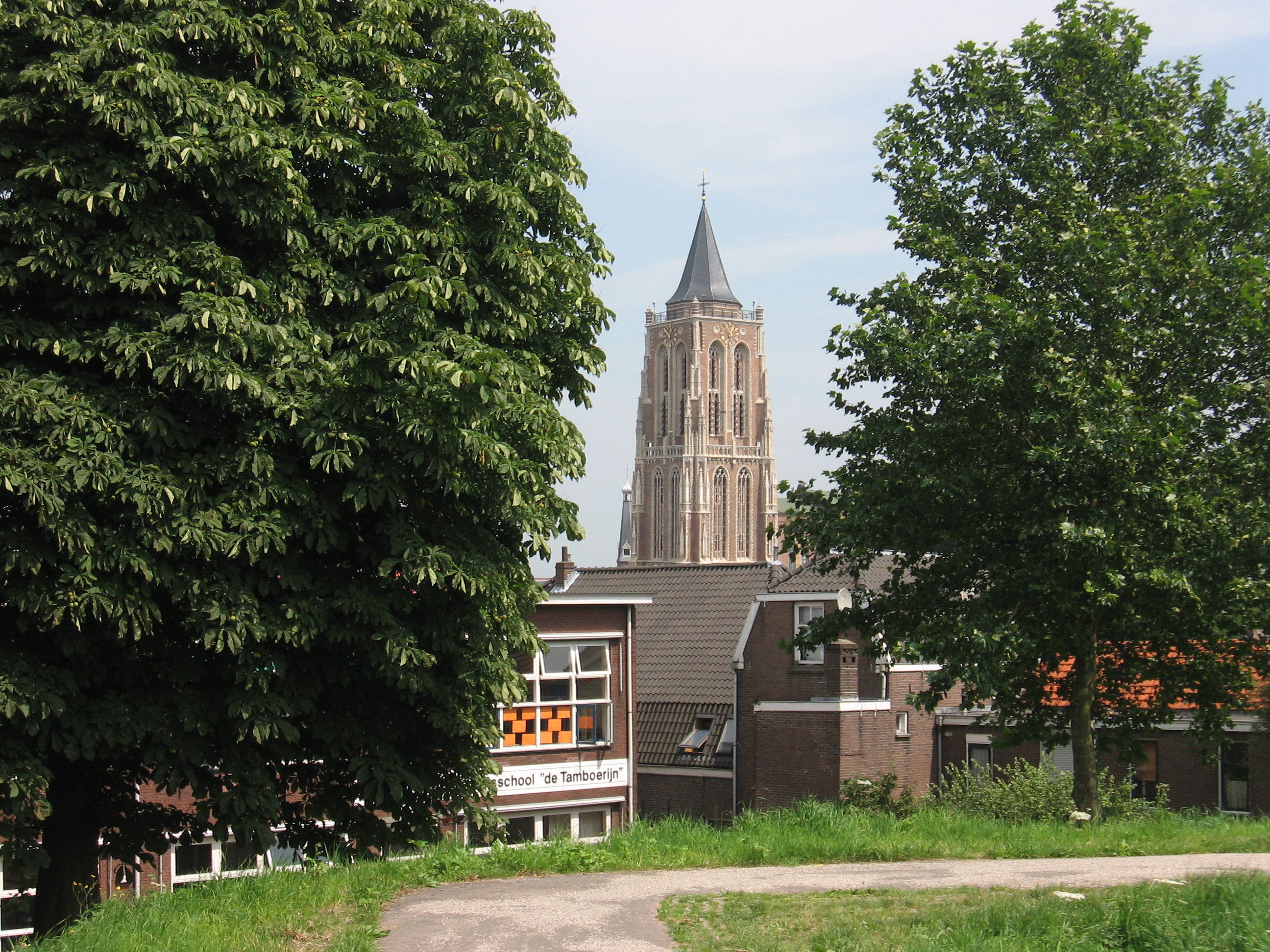 Gorinchem